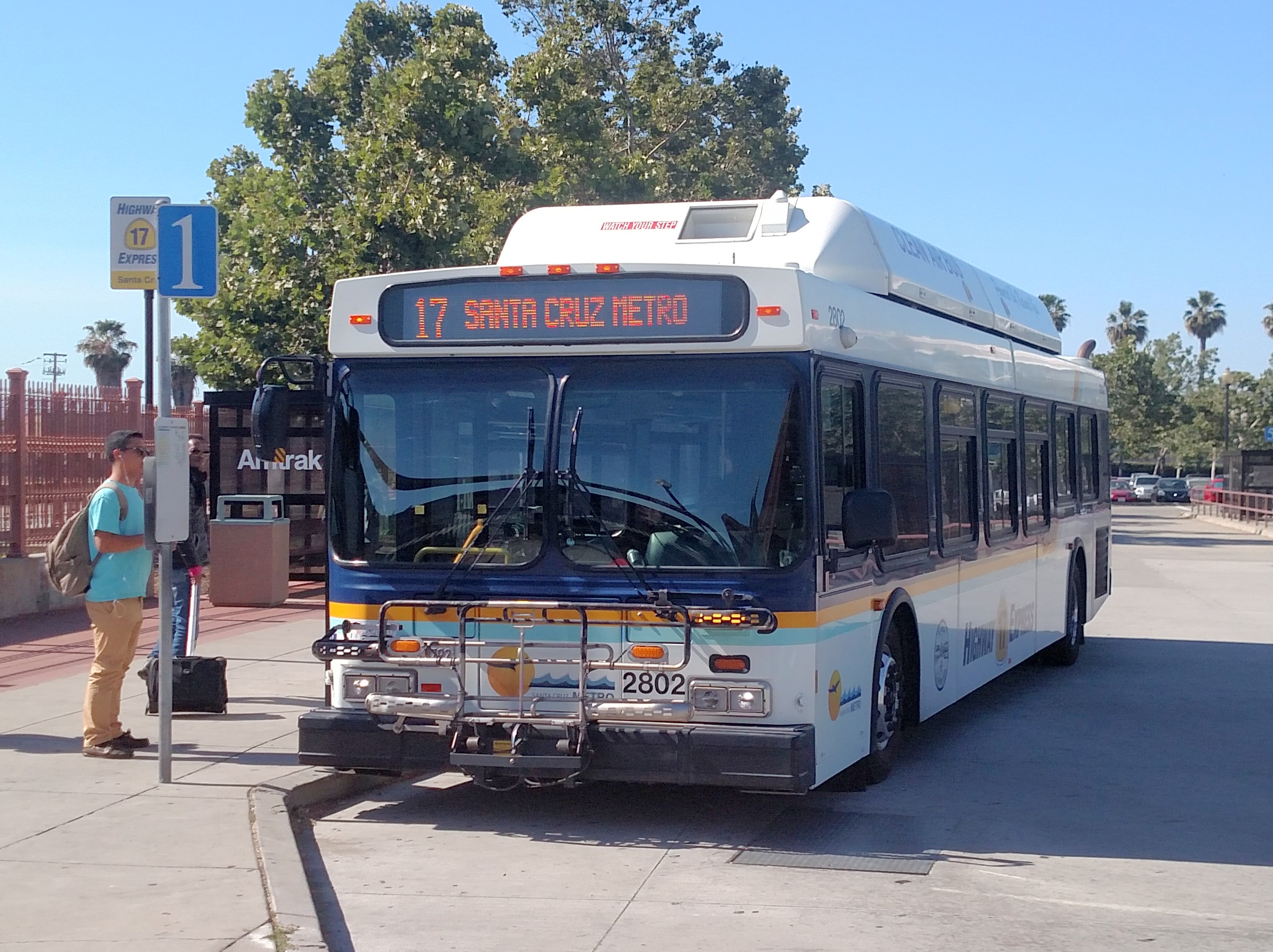 Highway 17 Express bus at the bus plaza at San Jose Diridon station in June 2018